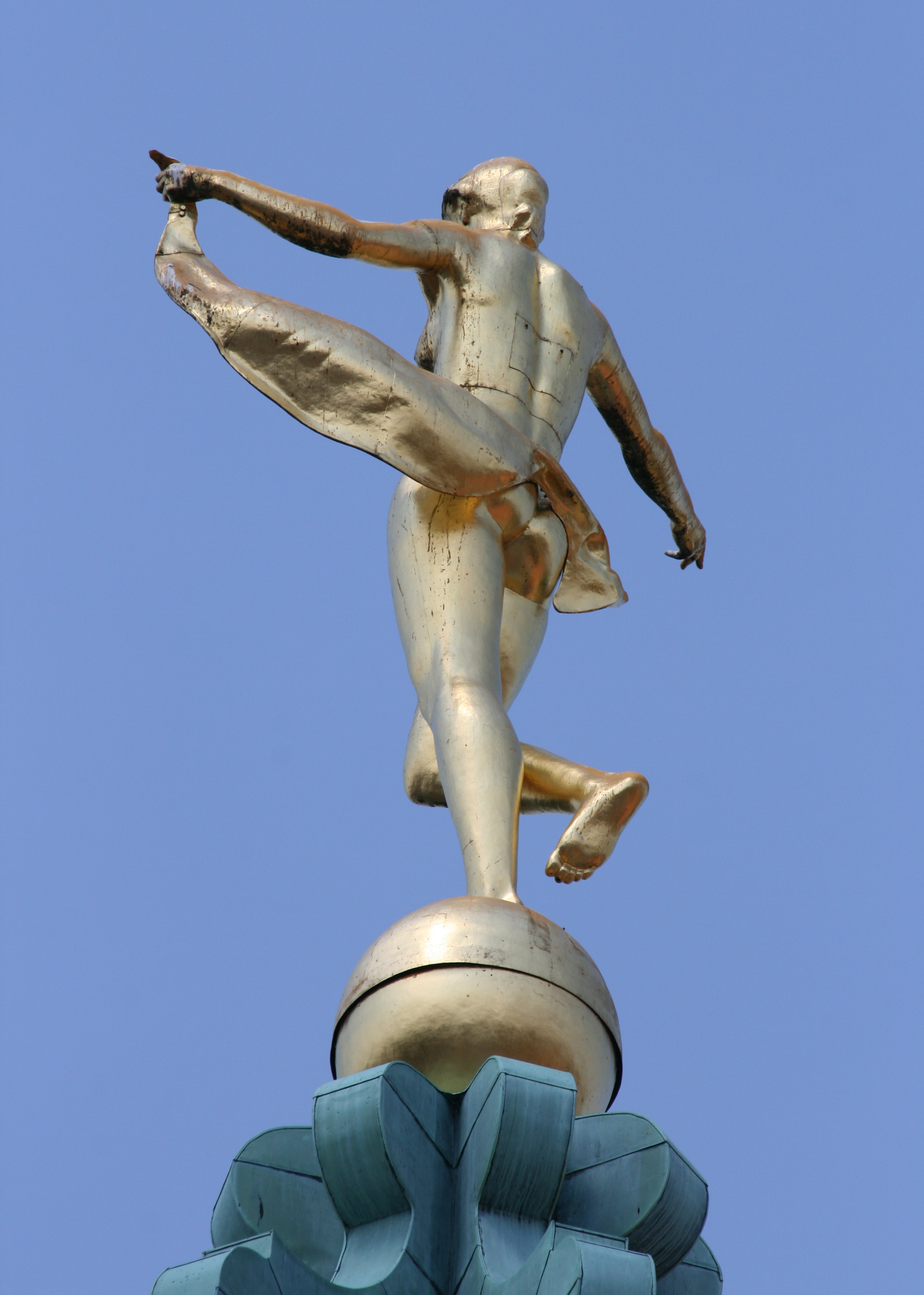 Berlin, Germany: Charlottenburg Palace, gold plated Fortuna sculpture, balancing on a ball, on the tower dome of the Charlottenburg Palace in 1954. Re-creation of Richard Scheibe.